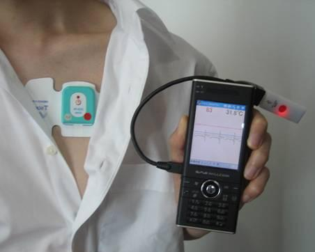 The small wireless ECG monitor